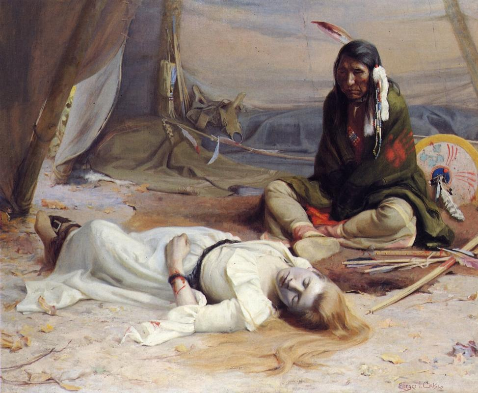 A famous and controversial painting, for its sexual implications (rather strong for the art of the period), stereotyping of Native Americans, and (conversely) "noble savage" romanticization of them. Backstory, as provided by Robfergusonjr (talk · contribs): In 1838, Dr. Marcus Whitman and his wife came to the Oregon Territory to establish a mission to the Cayuse Indians under the sponsorship of the New England Mission Board. In time, immigrants also came to the area and settled around the Whitman mission. All went well until there was an epidemic of measles. The Indians were stricken by the disease and, though treated by the Whitmans, were not able to respond so well to medical treatment. Angry and terrified, they accused Dr. Whitman of deliberately poisoning them to get their land. In late November of 1847, they attacked the mission and murdered most of the staff, including Dr. Whitman and his wife. A number of others were taken captive, among them Lorinda Bewley, a seventeen-year-old teacher at the mission, who was spared from death by a Cayuse chief named Five Crows. When he saw her, he decided that he would enjoy the novelty of a white woman for a wife. Needless to say, this did not meet with a favorable response from the captured girl. Couse's painting shows us a dramatic scene – Lorinda is lying on the floor of the chief's teepee, unconscious, with bloody bonds testifying to a terrified but courageous struggle. Five Crows is seated on the floor, staring at her and unable to fathom her behavior, her aversion to him. Couse has shown us two cultures in tragic juxtaposition, and we are able perhaps to have an understanding of each.